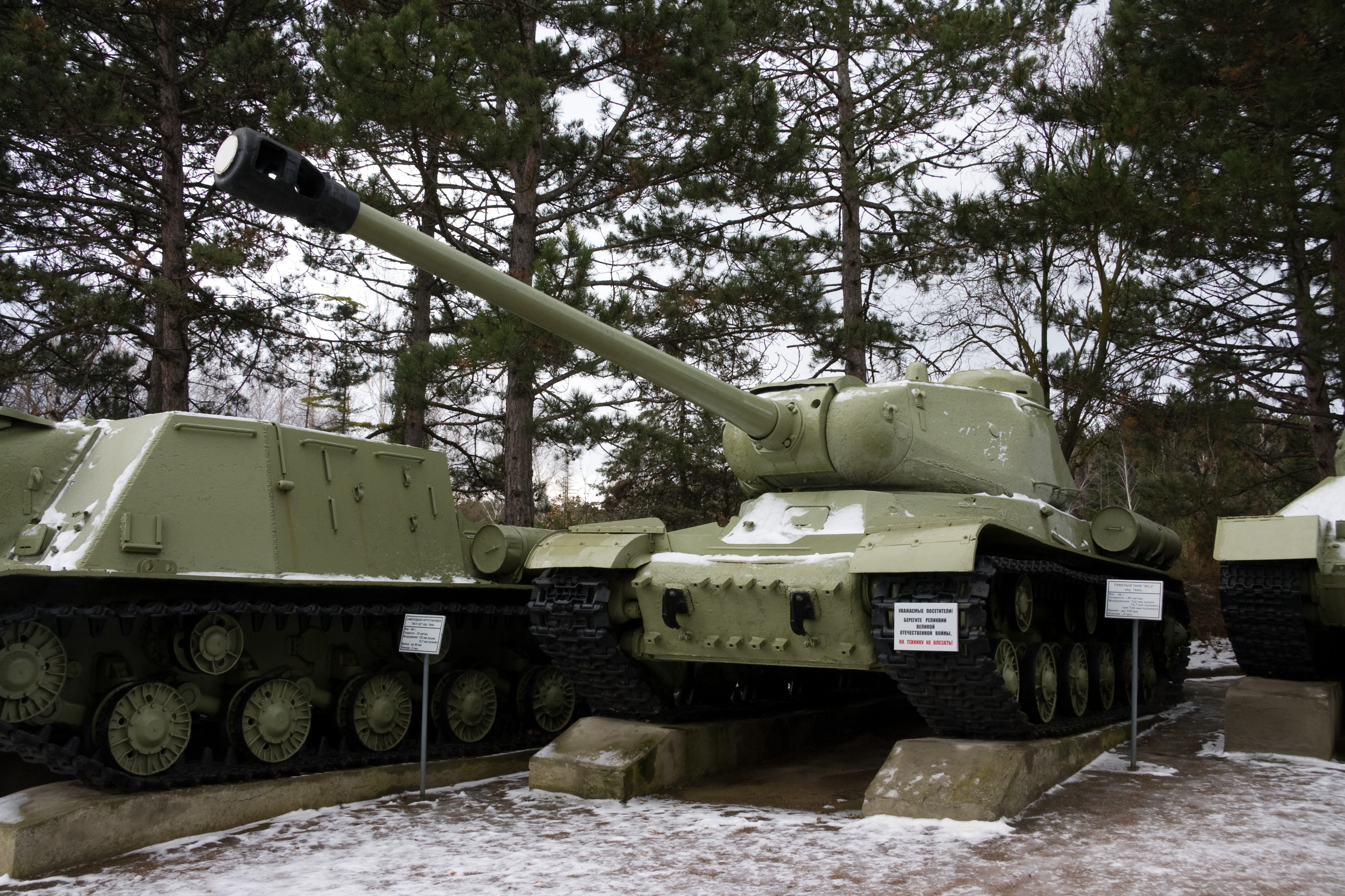 IS-2 1943 at Sapun-Gora